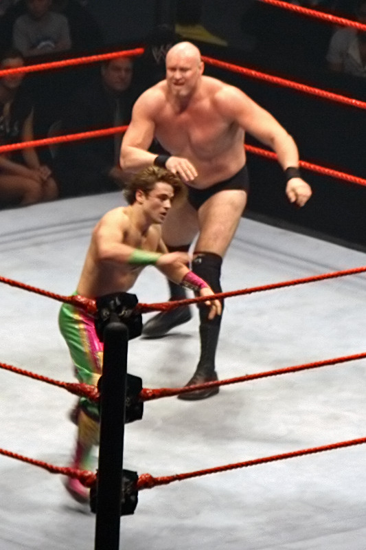 Gene Snitsky Irish-whips Brian Kendrick to the turnbuckle. Taken during the WWE Raw - Survivor Series Tour, at Rod Laver Arena, Melbourne Park, Melbourne, Australia. Kendrick and Snitsky wrestled on the night; the match was won by Snitsky pinning Kendrick following a pump-handle slam.